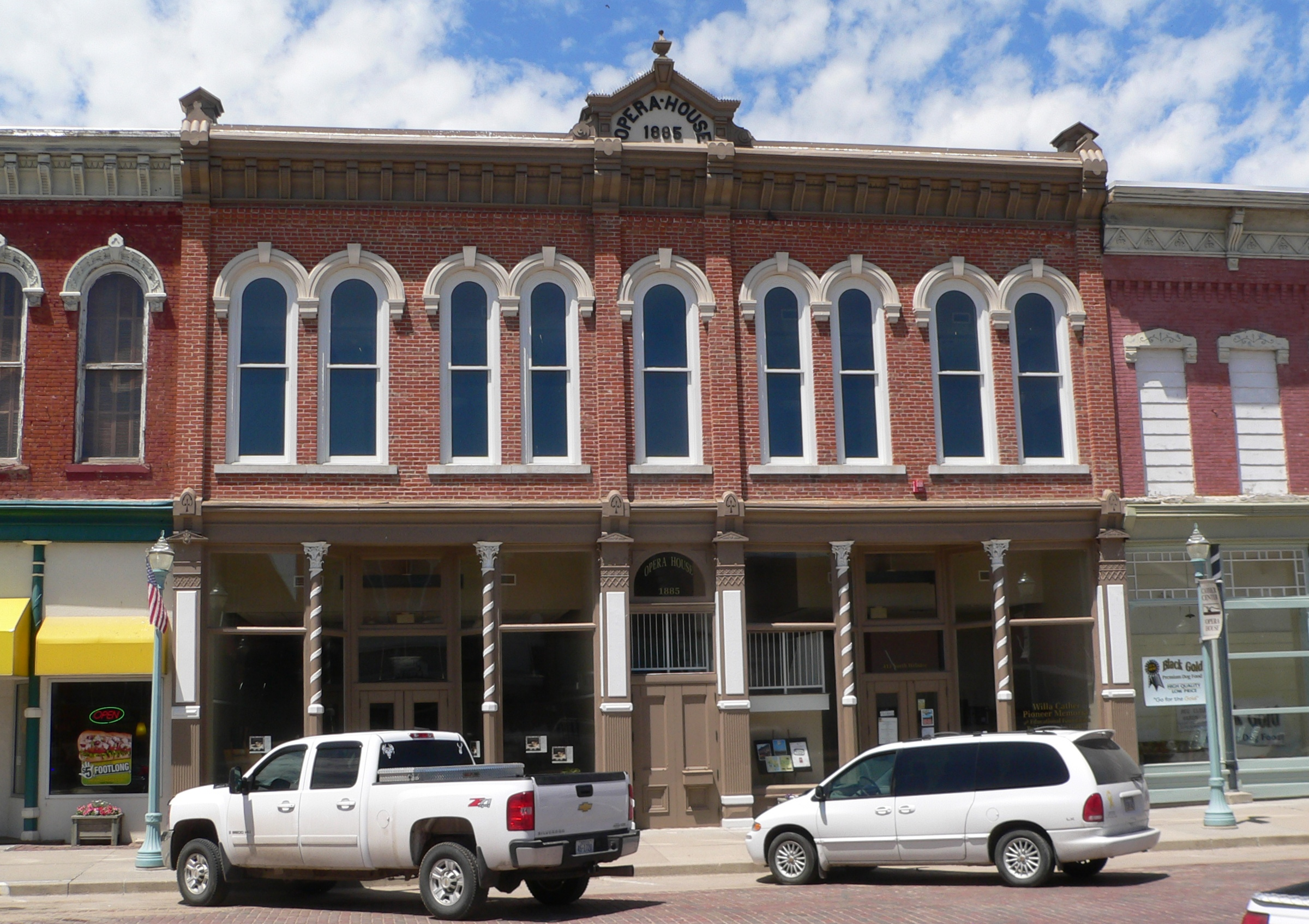 Opera House, located at 413 N. Webster in Red Cloud, Nebraska. It was constructed in 1885. The building is part of Red Cloud's Main Street Historic District, which is listed in the National Register of Historic Places. It is also separately listed in the NRHP.